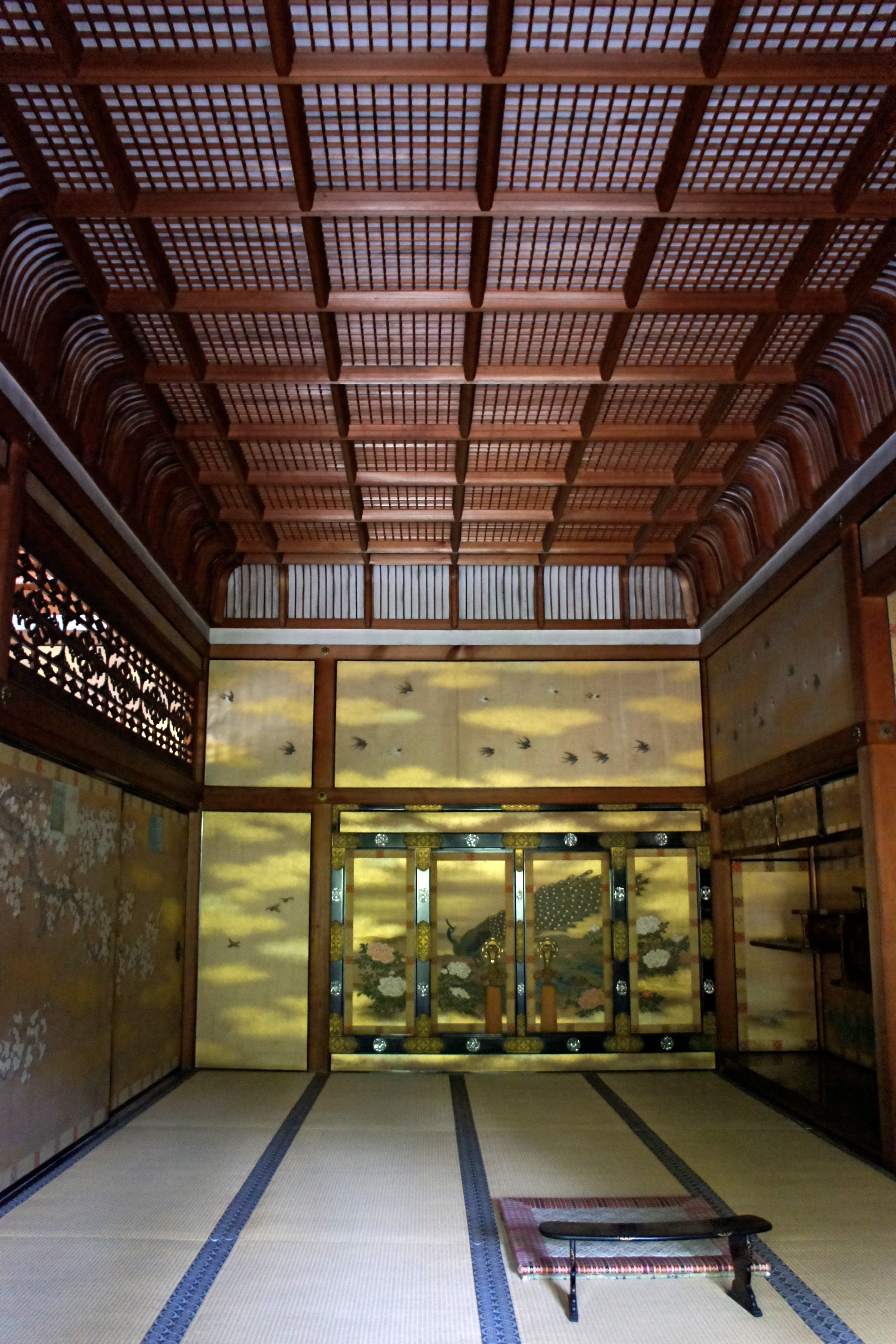 Ninna-ji's Shinden in Ukyō-ku, Kyoto, Kyoto Prefecture, Japan. Ninna-ji was registered as part of the UNESCO World Heritage Site "Historic monuments of ancient Kyoto".